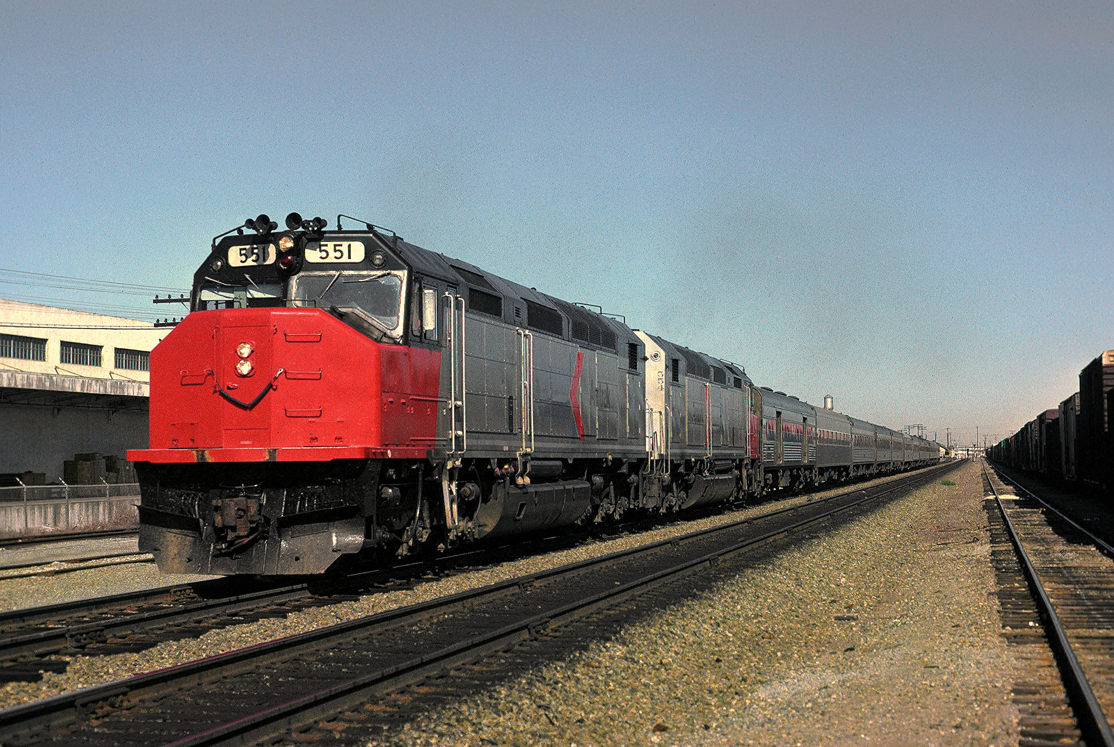 AMTK 551 with 11 at NewhallMay75x